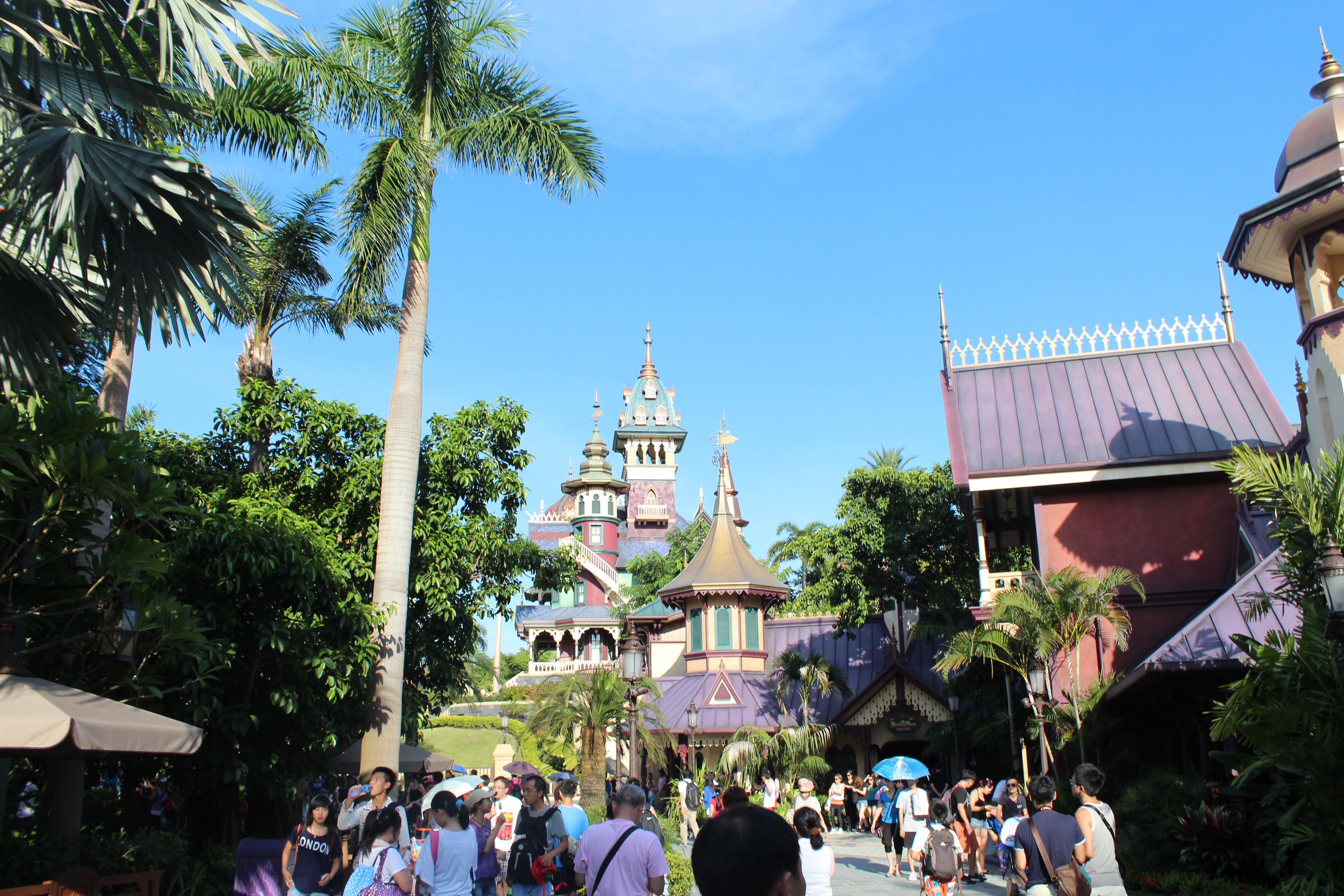 Mystic Manor, Hong Kong Disneyland, Hong Kong